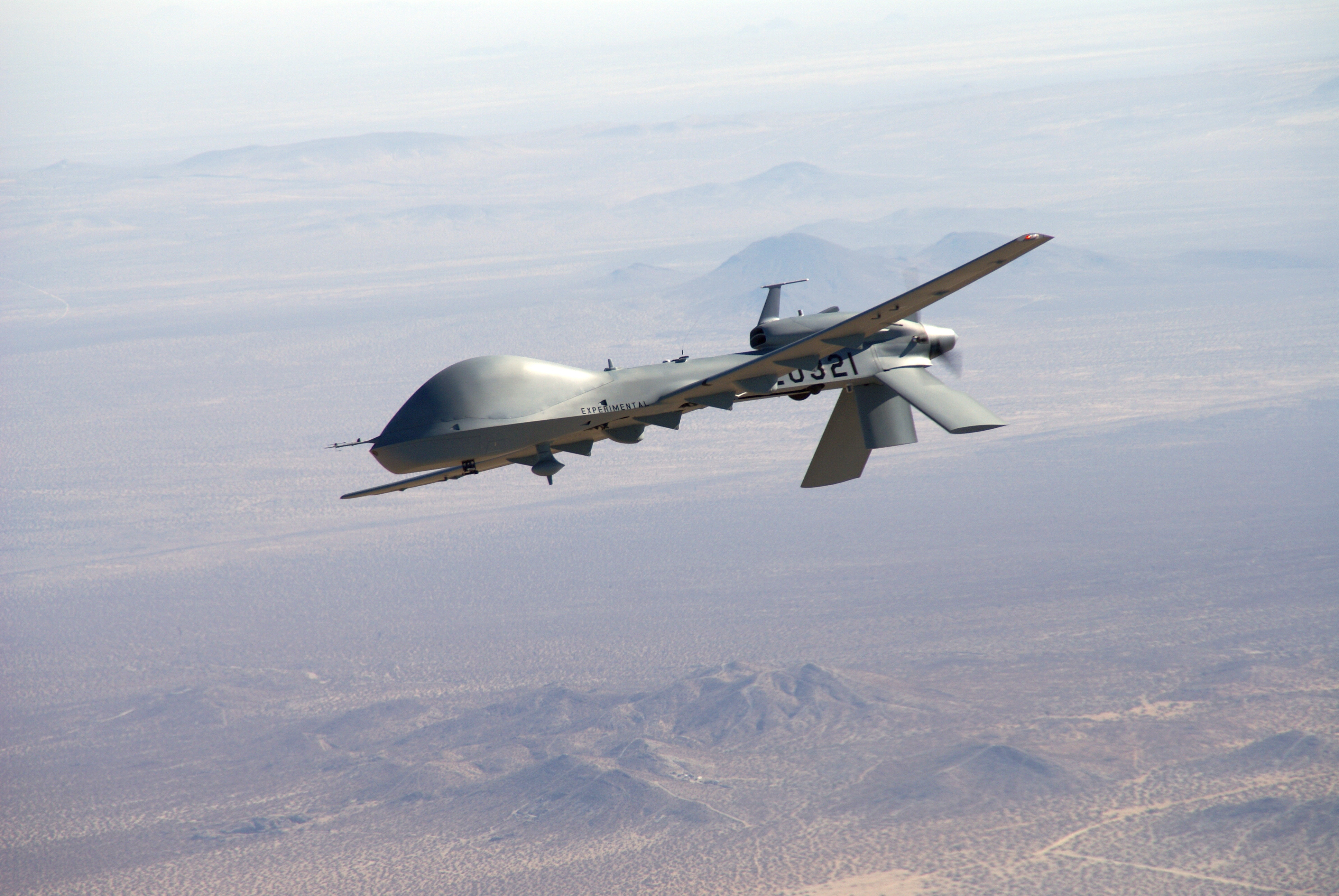 General Atomics MQ-1C Sky Warrior